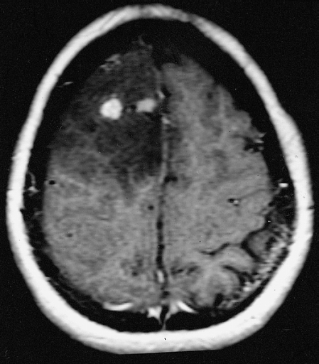 CNS: FIBRILLARY OR "DIFFUSE" ASTROCYTIC NEOPLASM WITH DIFFERING DEGREES OF DIFFERENTIATION. A large area of dark magnetic resonance signal representing low-grade astrocytoma is present in the frontal lobe on the left. Higher-grade foci are apparent as the two white contrast-enhancing foci within this darker zone.